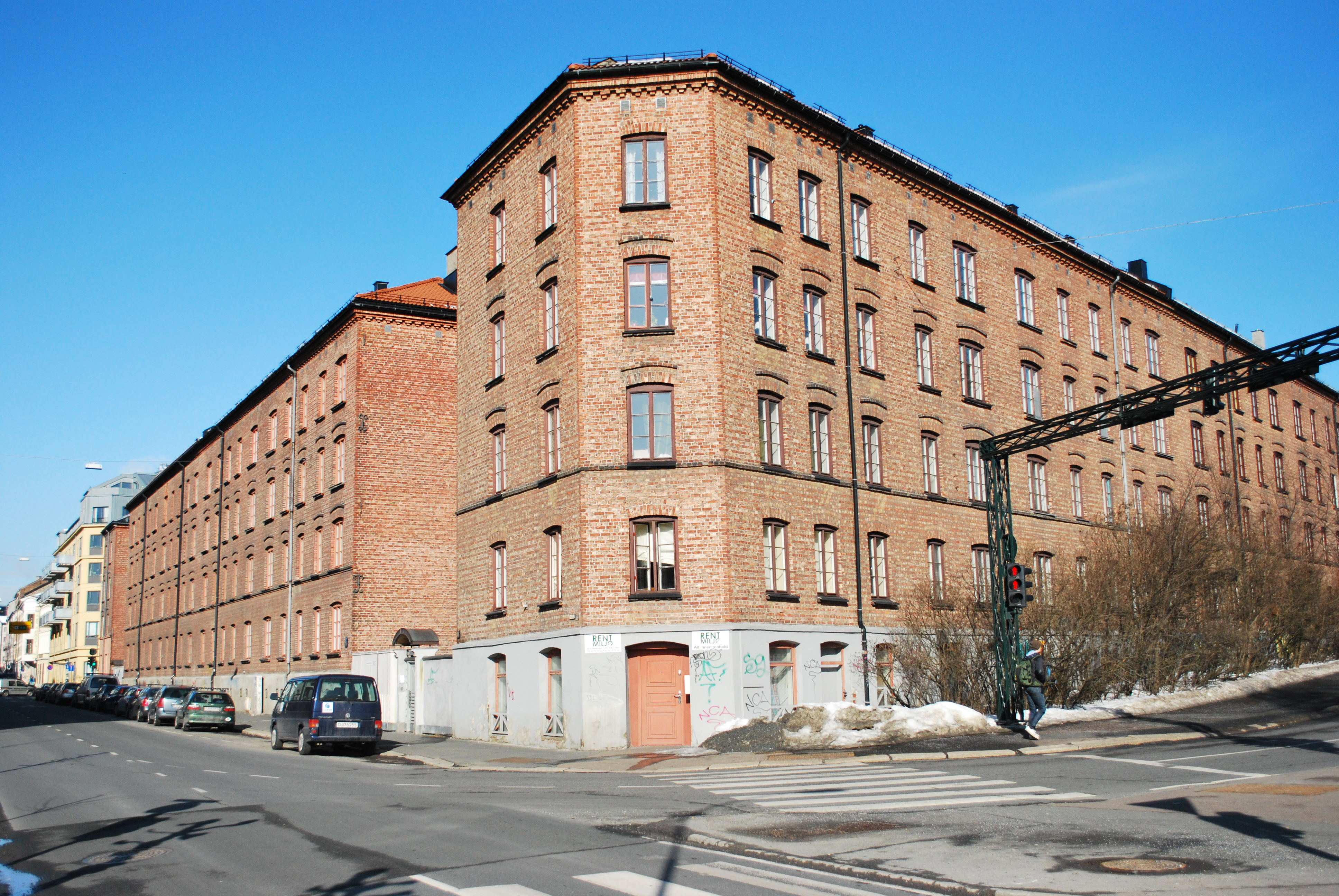 "Gråbeingårdene", Jens Bjelkes g. 14, 16 and 18, Tøyen, Oslo